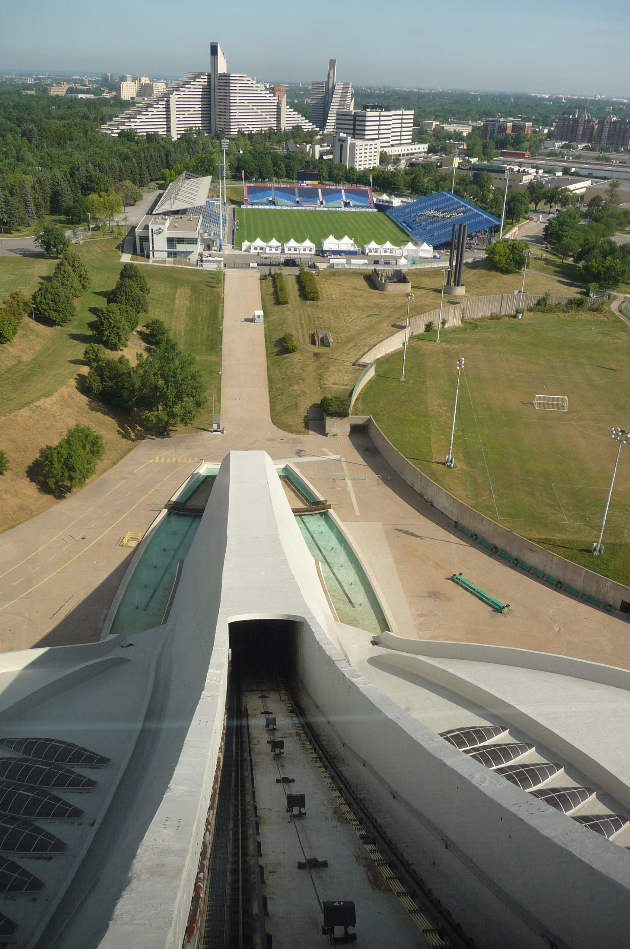 The view from funicular cart going up Olympic stadium observatory.